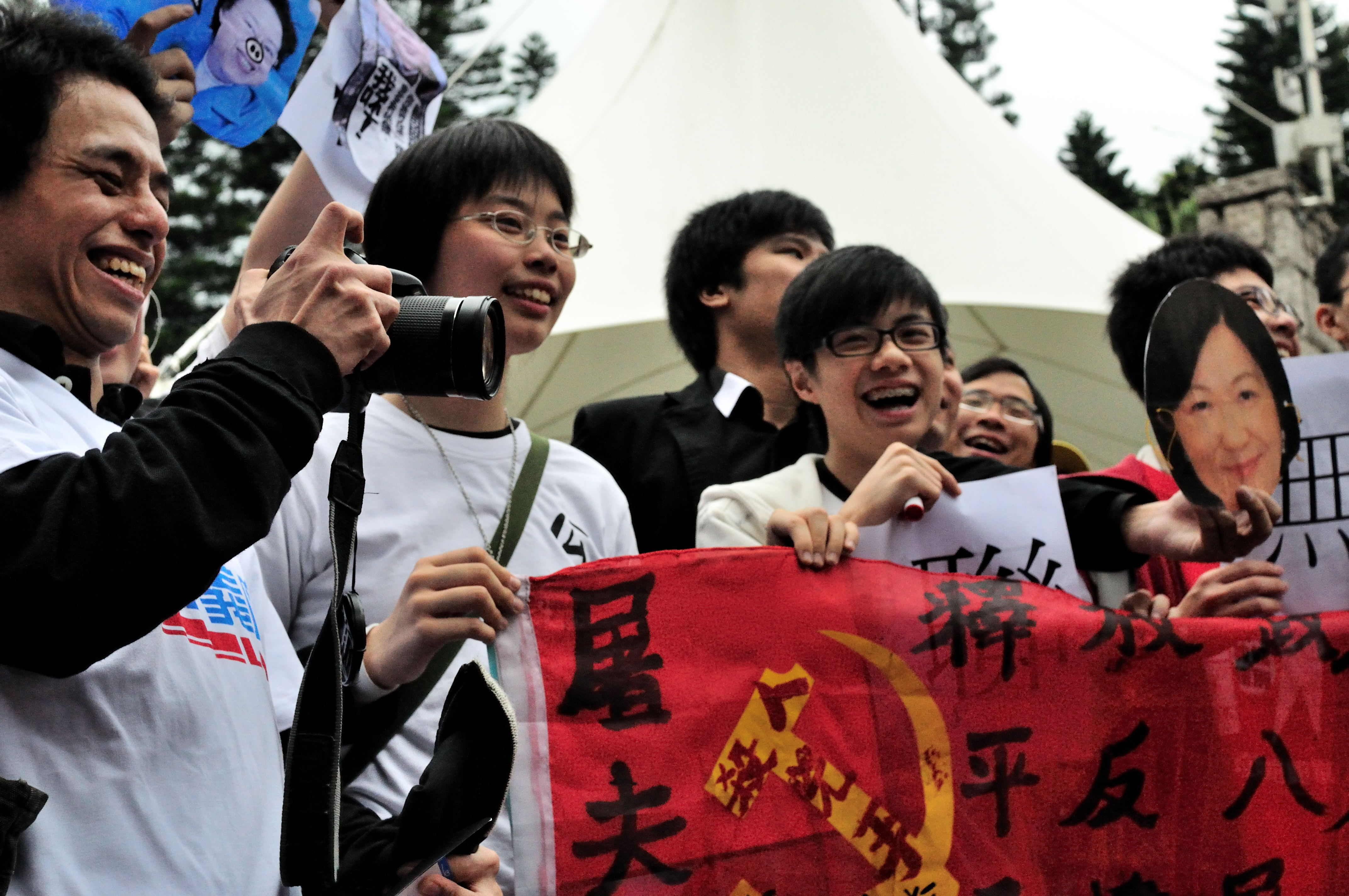 城市論壇 維園阿哥 RTHK City Forum (18th April, 2010)